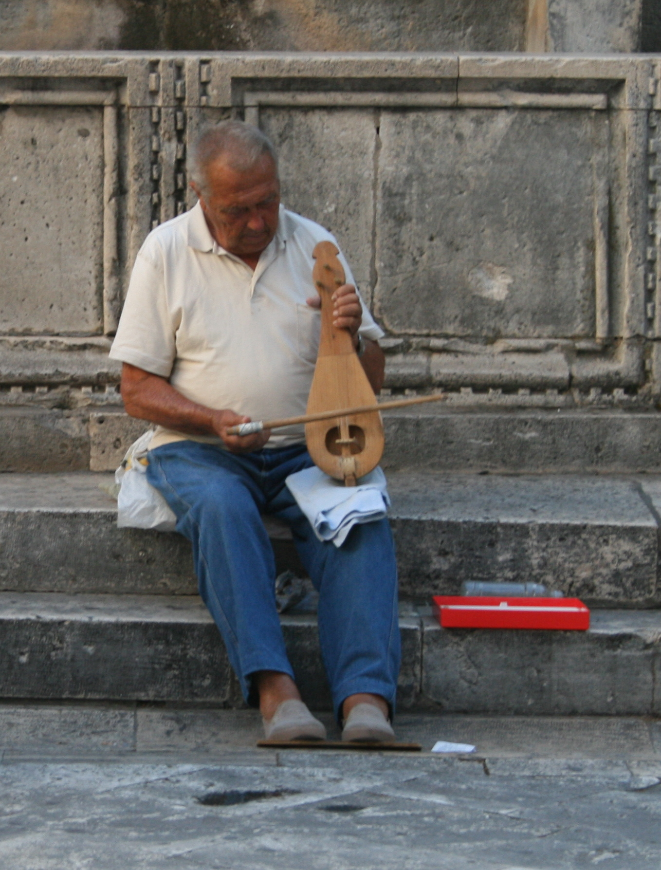 Lijerica player in Dubrovnik (Croatia)